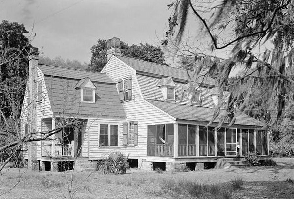 Oakland Plantation, Mount Pleasant vicinity (Charleston County, South Carolina) (cropped)